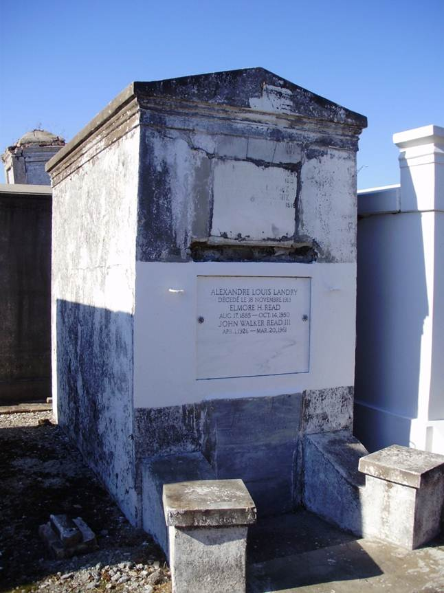 Tomb of Jacques-Francois (James) Pitot, Square 1, St. Louis No. 2 Cemetery, New Orleans, Louisiana (USA)